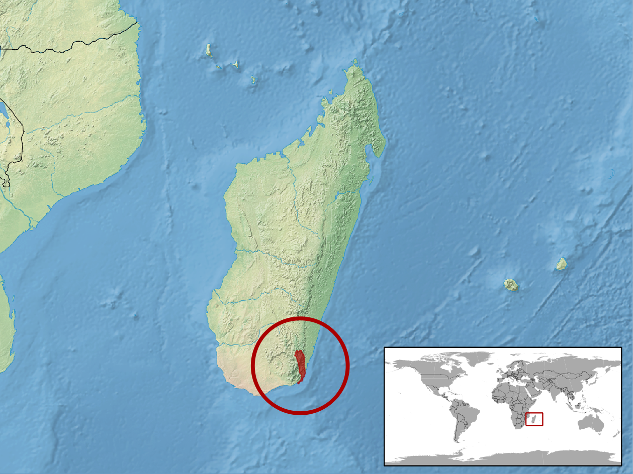 geographic distribution of Madascincus ankodabensis